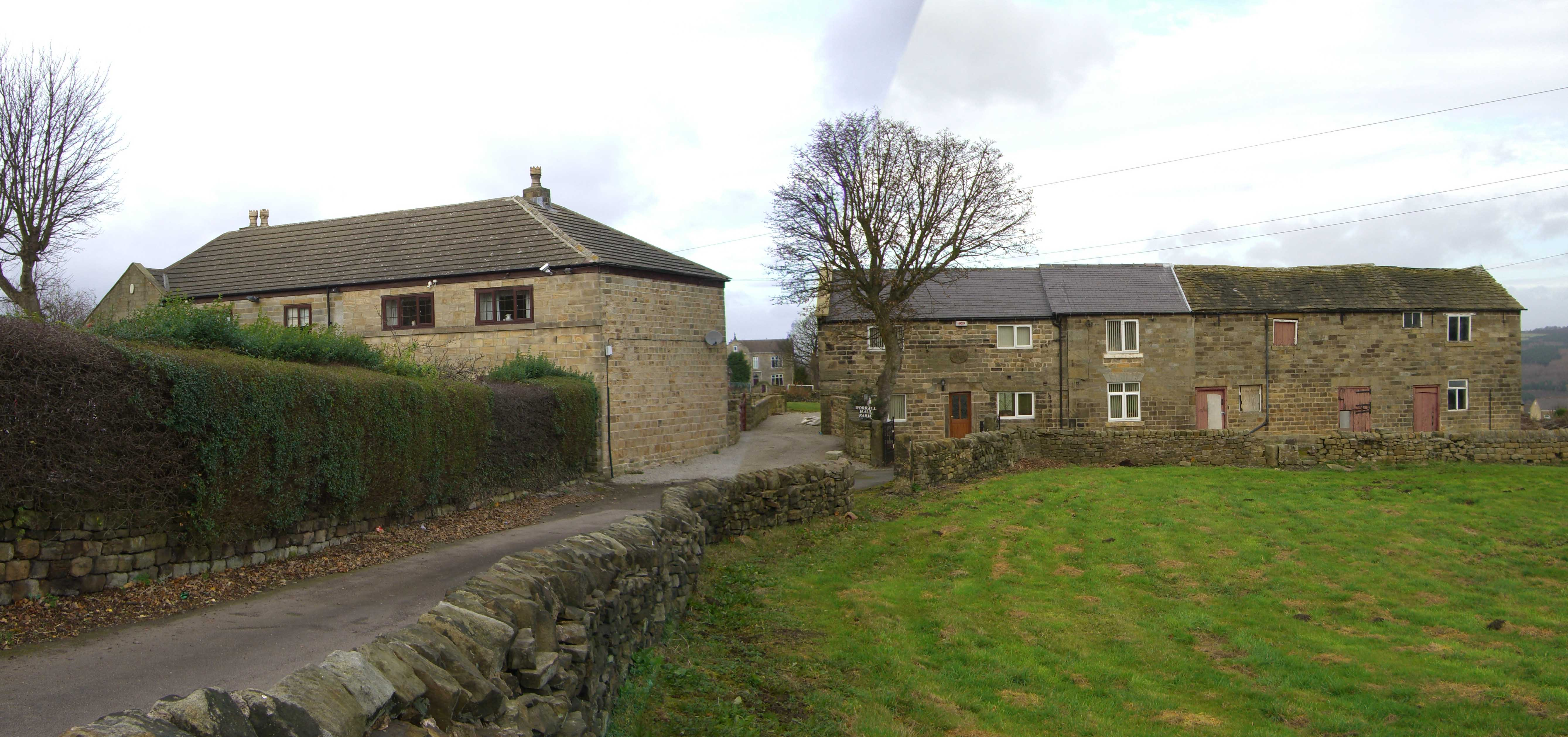 Worrall Hall Farm and Worrall Hall in the village of Worrall near Sheffield.